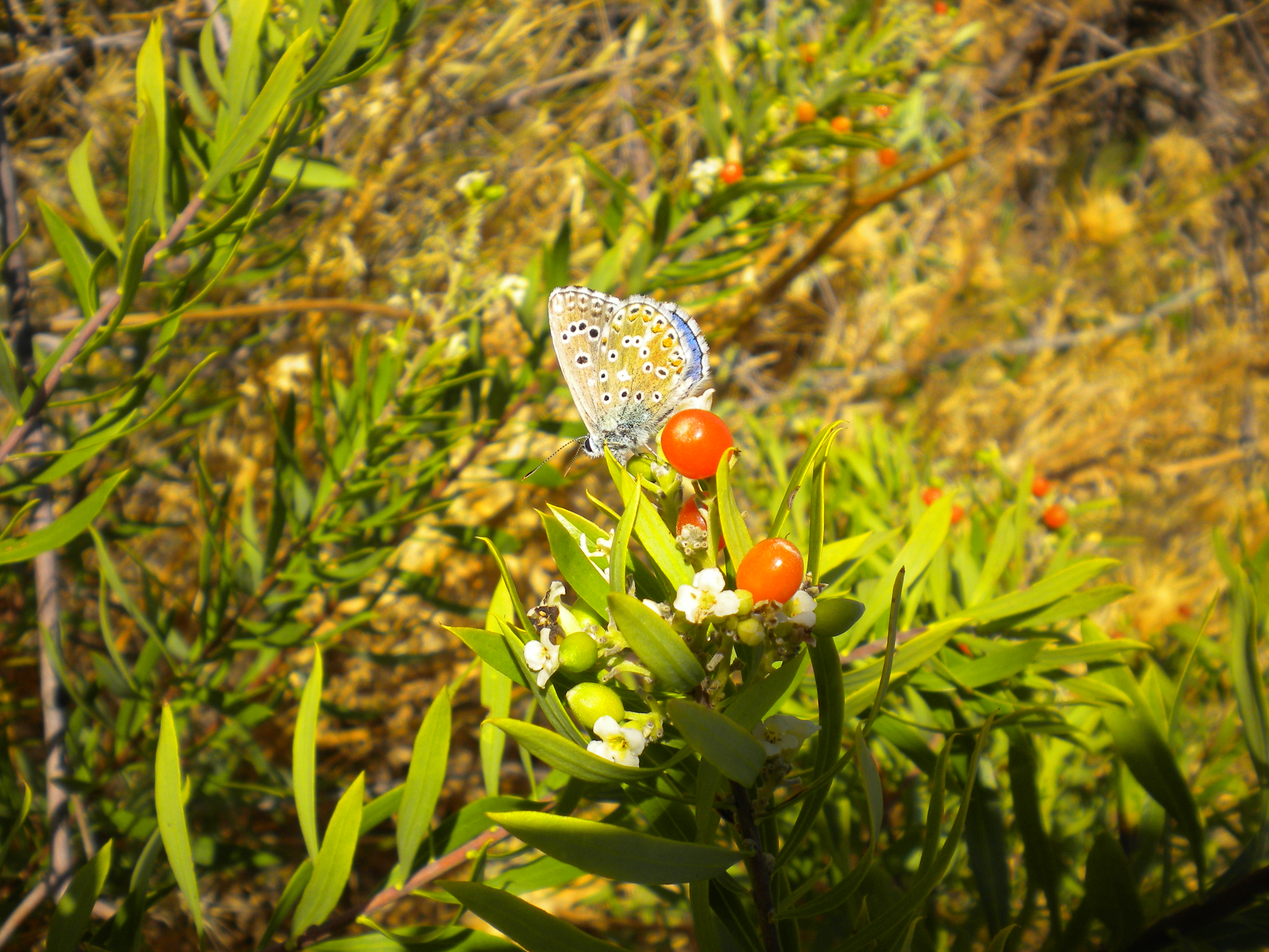 Polyommatus (=Lysandra) bellargus (adonis blue) on a Daphne gnidium, in Humanes (Guadalajara, Spain).